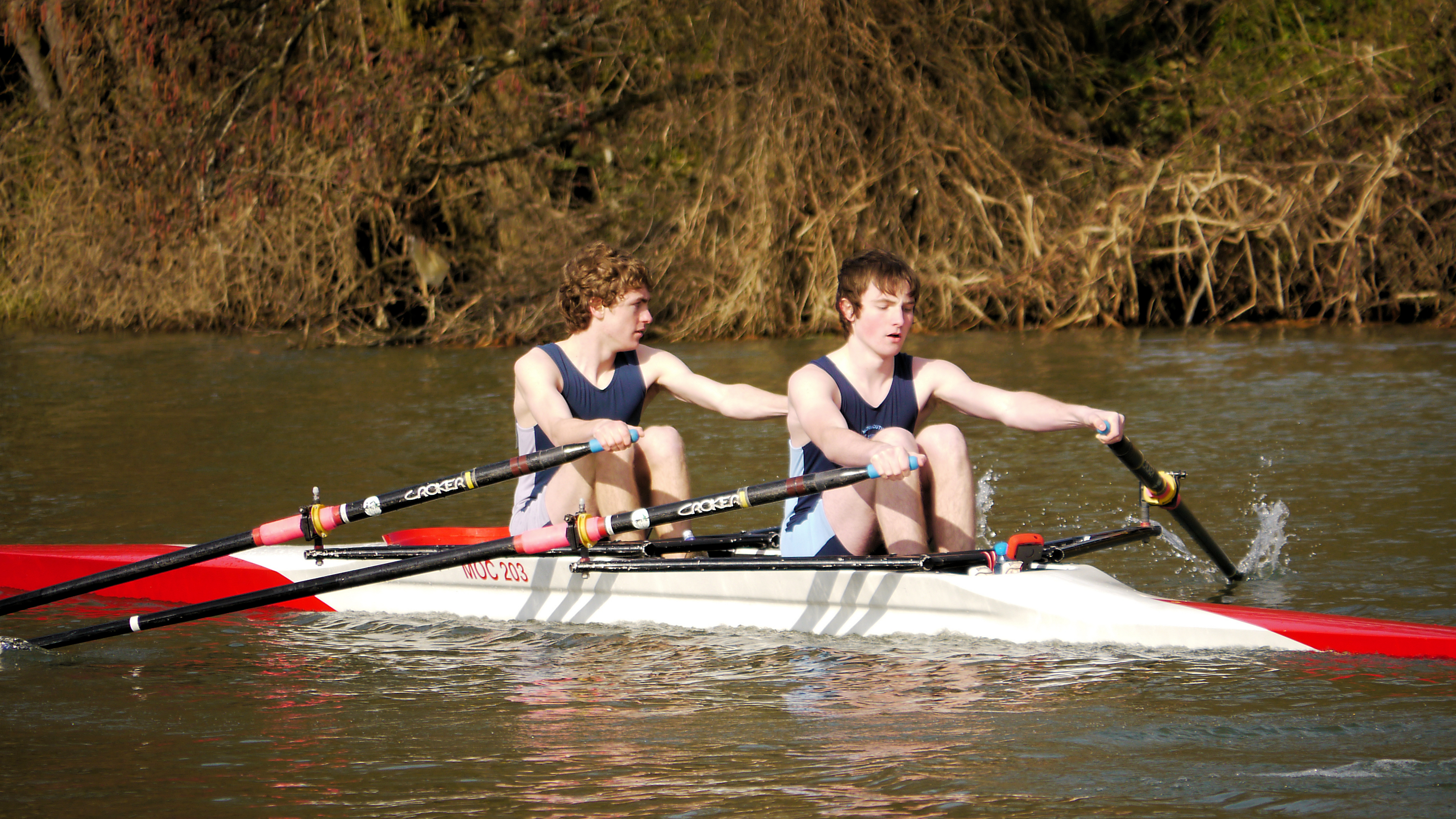 Monmouth Comprehensive School Competing in Avon County Head of The Avon. 5th March 2011